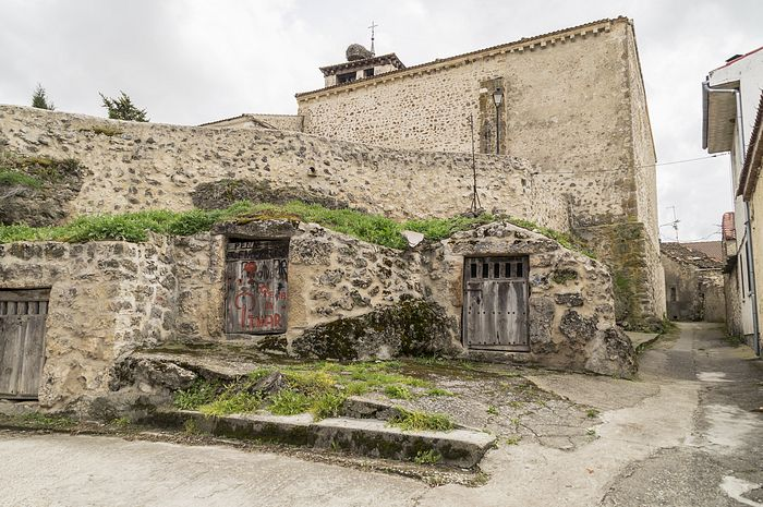 Bodegas urbanas